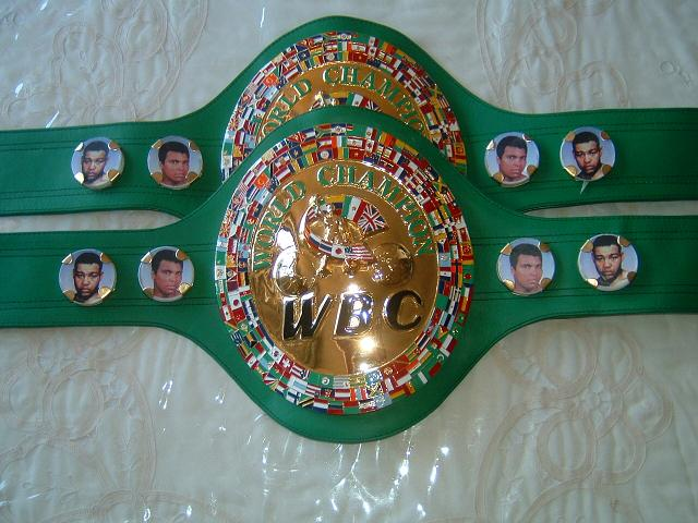 This is a WBC Championship Belt